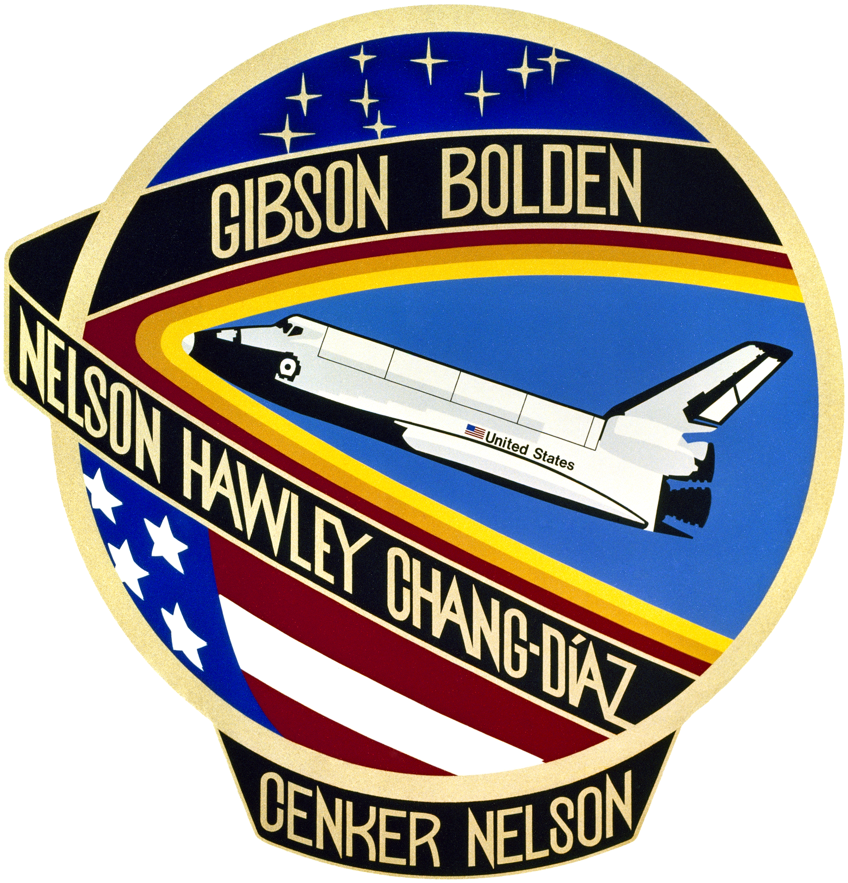 STS-61-c mission patch Columbia, which opened the era of the Space Transportation System with four orbital flight tests, is featured in re-entry in the emblem designed by the STS-61C crew representing the seven team members who manned the vehicle for its seventh STS mission. Gold lettering against black background honors the astronaut crewmembers on the delta pattern surrounding colorful re-entry shock waves, and the payload specialists are honored similarly below the sphere.